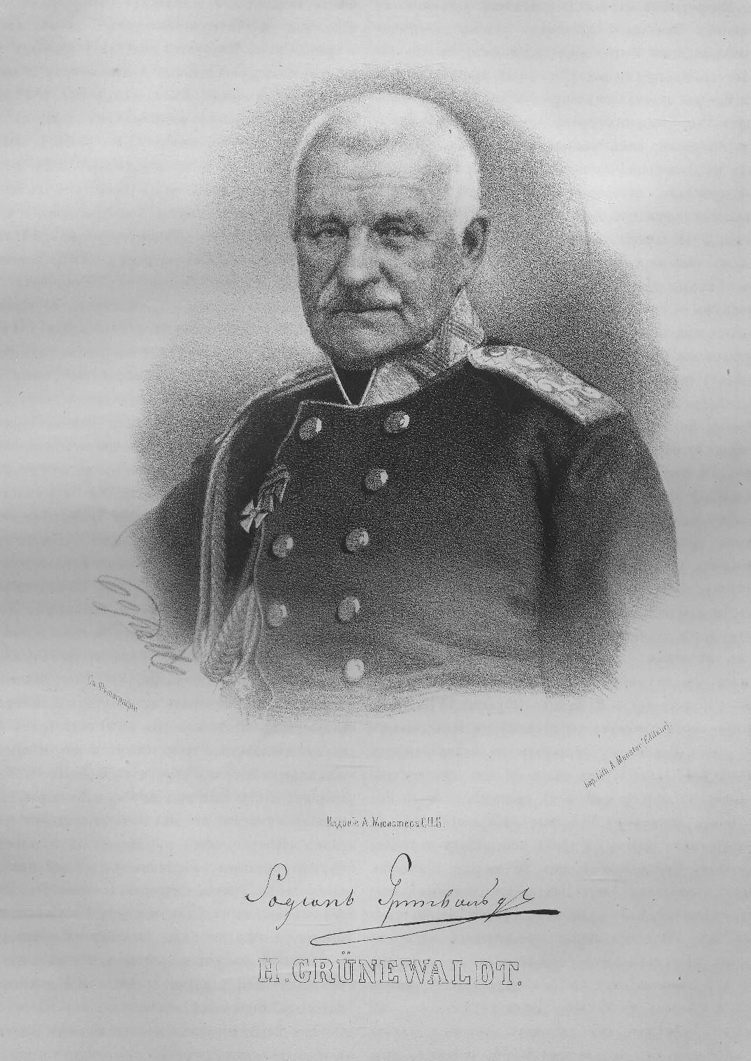 Rodion Egorovich Grunewaldt